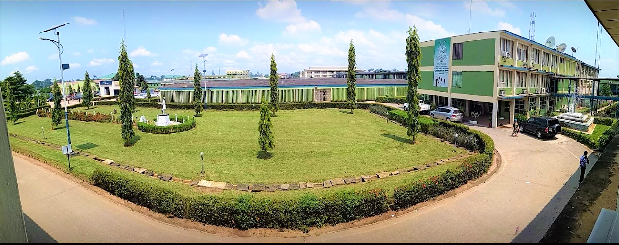 An Aerial View of the Hospital's Entrance, October 2018